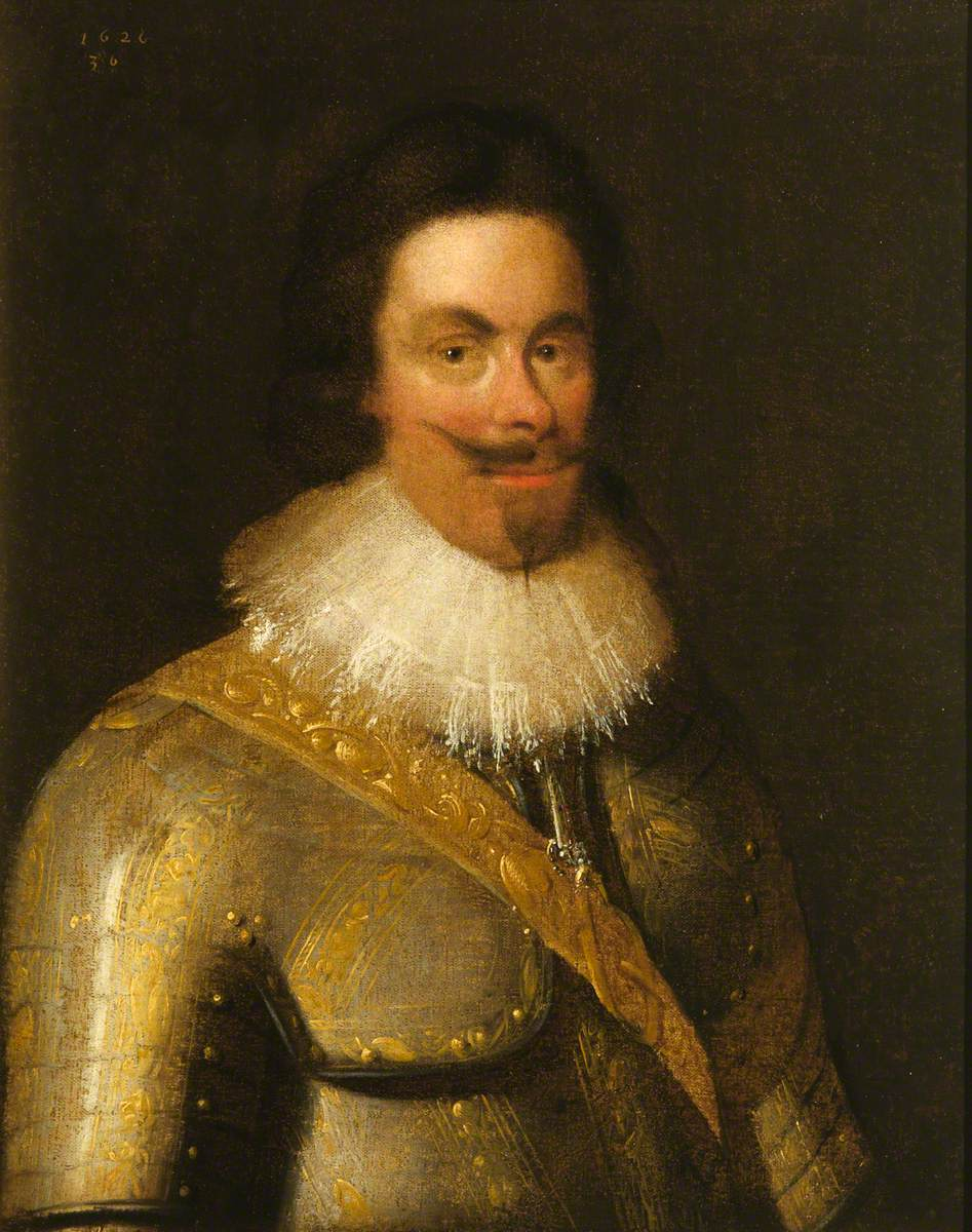 Sir William Forbes, 1st Baronet of Craigievar, (created 1630), bust length, with pointed beard, wearing damascened armour with white collar.